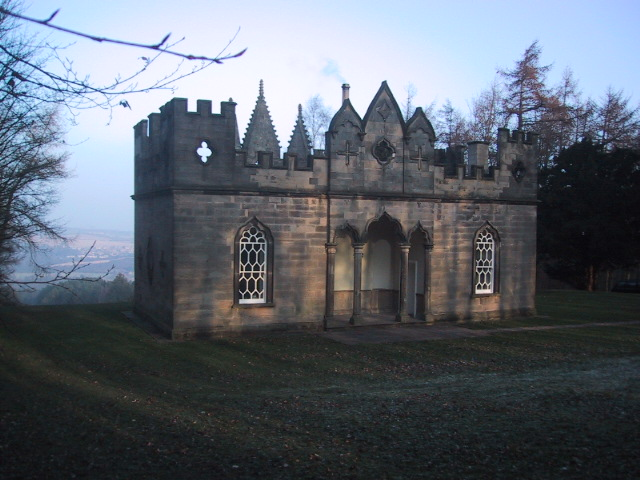 The Banqueting House, Gibside: rear 'loggia' view